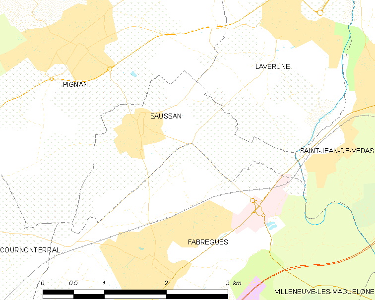 Map commune FR insee code 34295.png - Saussan